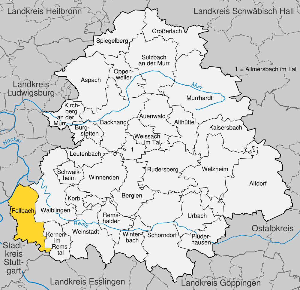 position of Fellbach within the Rems-Murr-Kreis, Baden-Württemberg, Germany